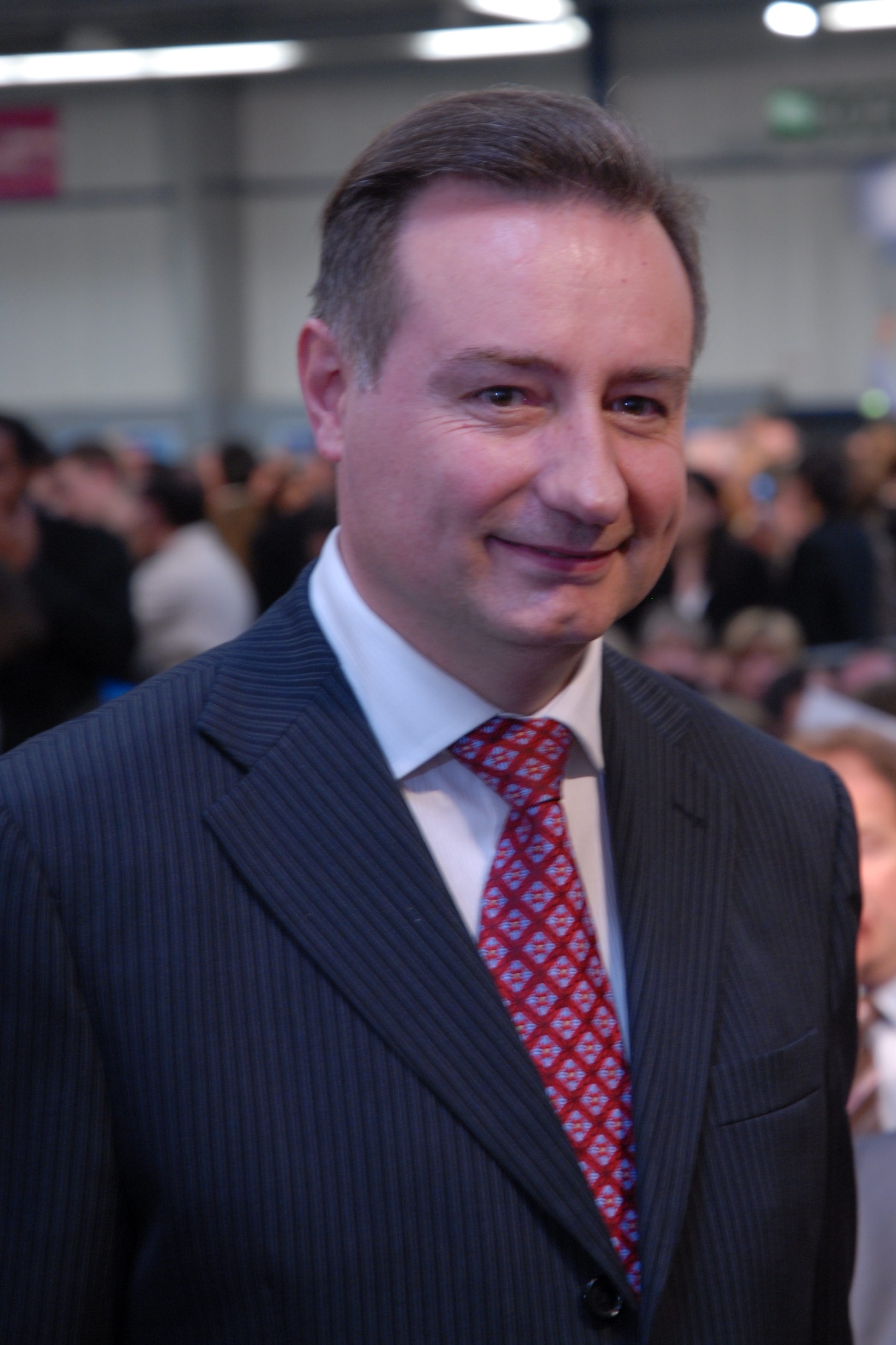 Jean-Luc Moudenc during Nicolas Sarkozy's meeting in Toulouse on April, 12th 2007 for the 2007 presidential election.